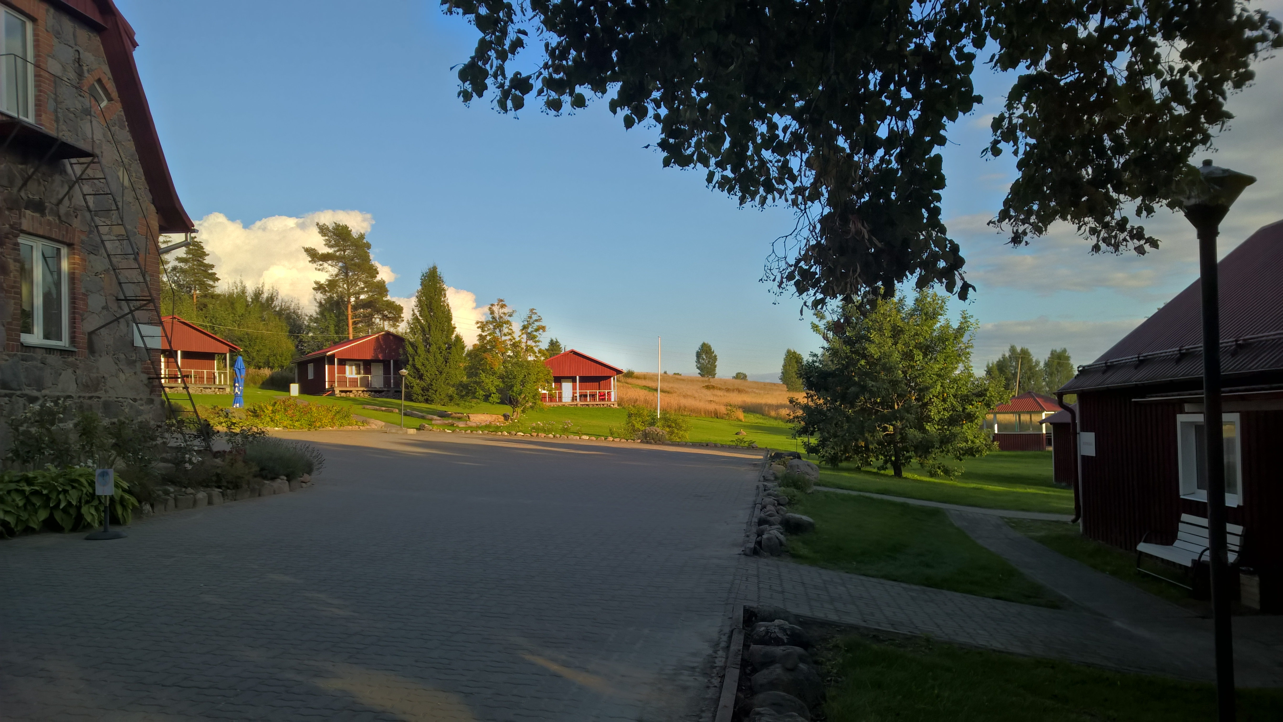 Wikimedia CEE Meeting 2015, Voore, Jõgeva, Estonia